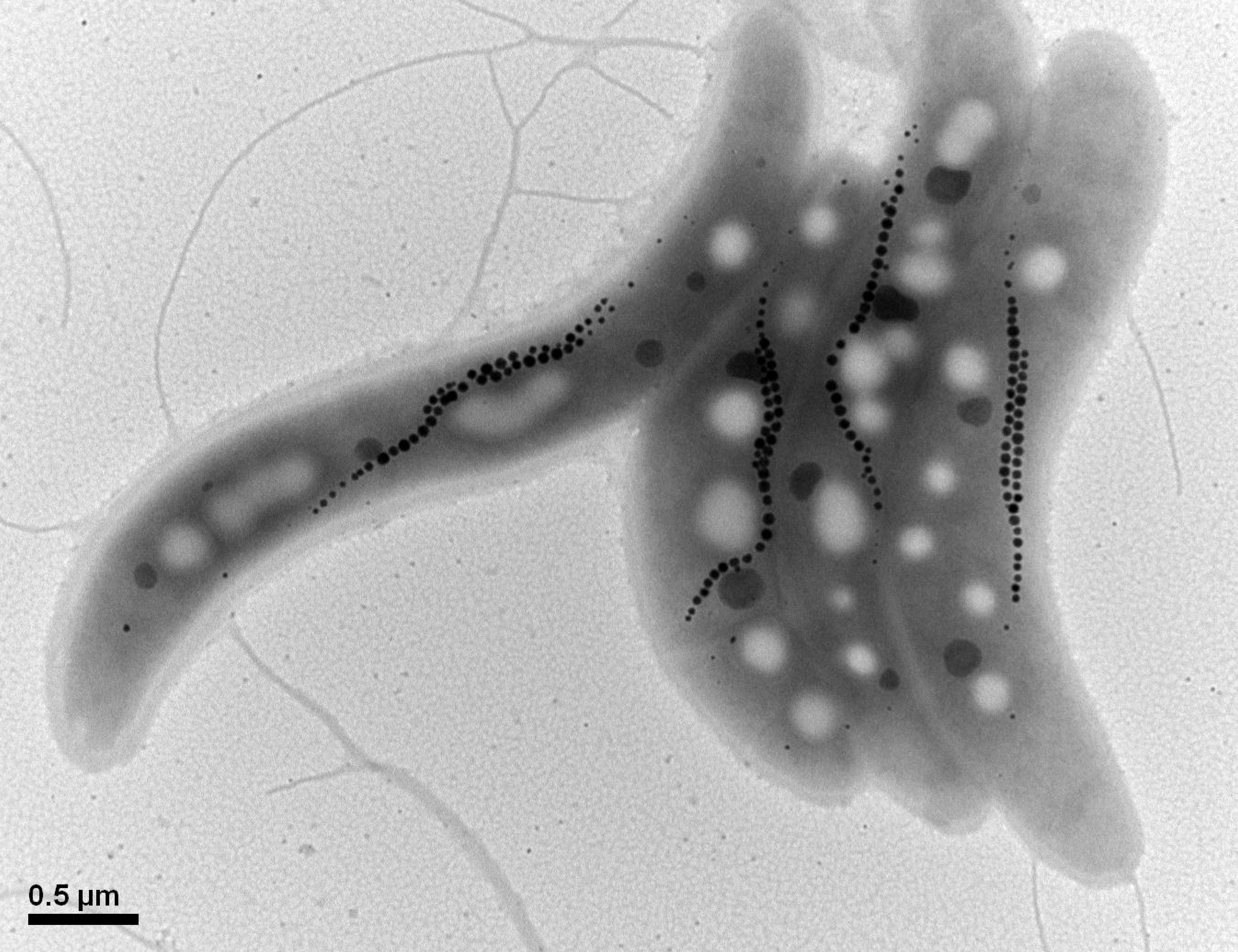 Magnetosomes in Magnetospirillum gryphiswaldense